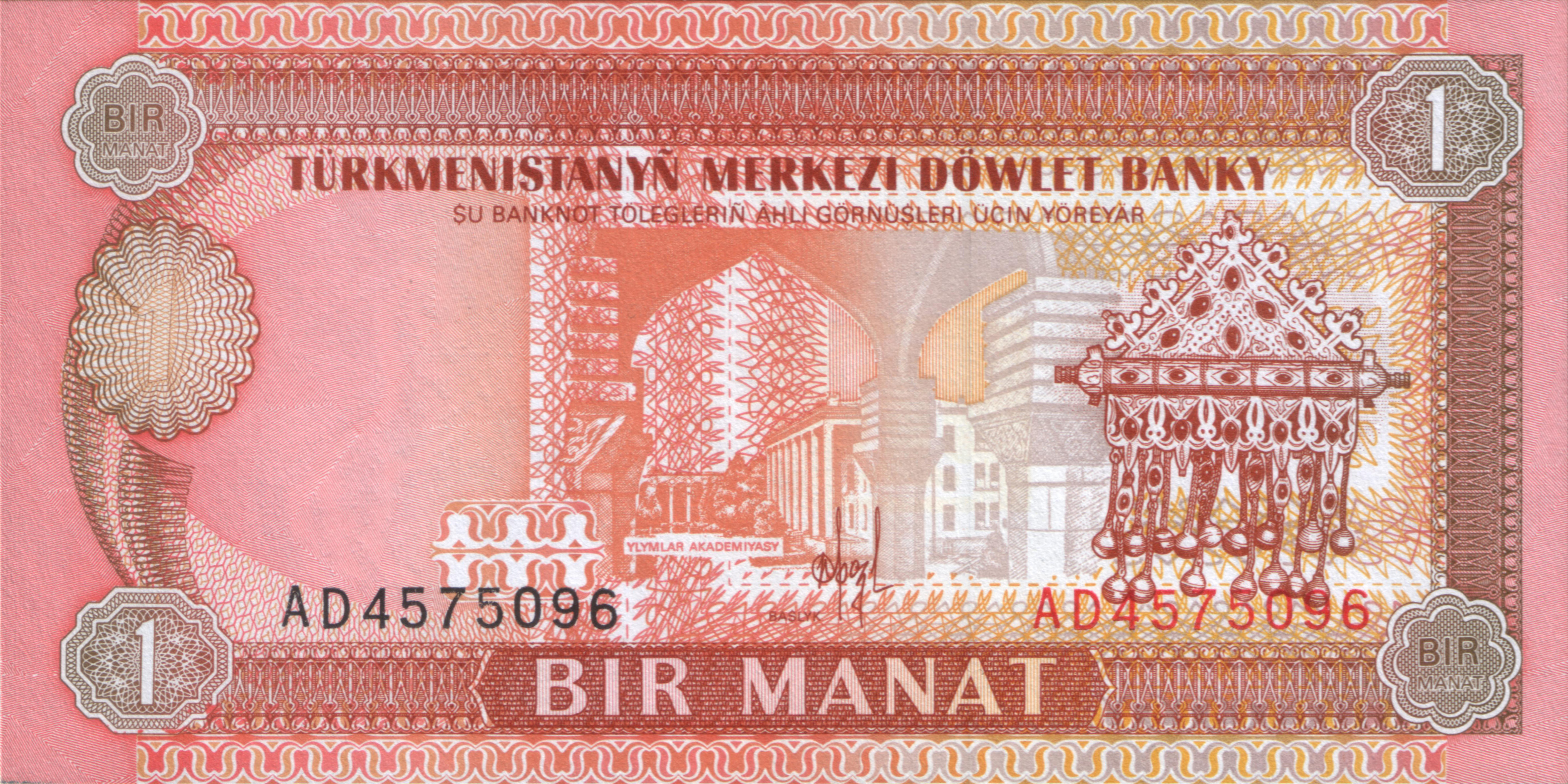 1 manat of Turkmenistan (1993)